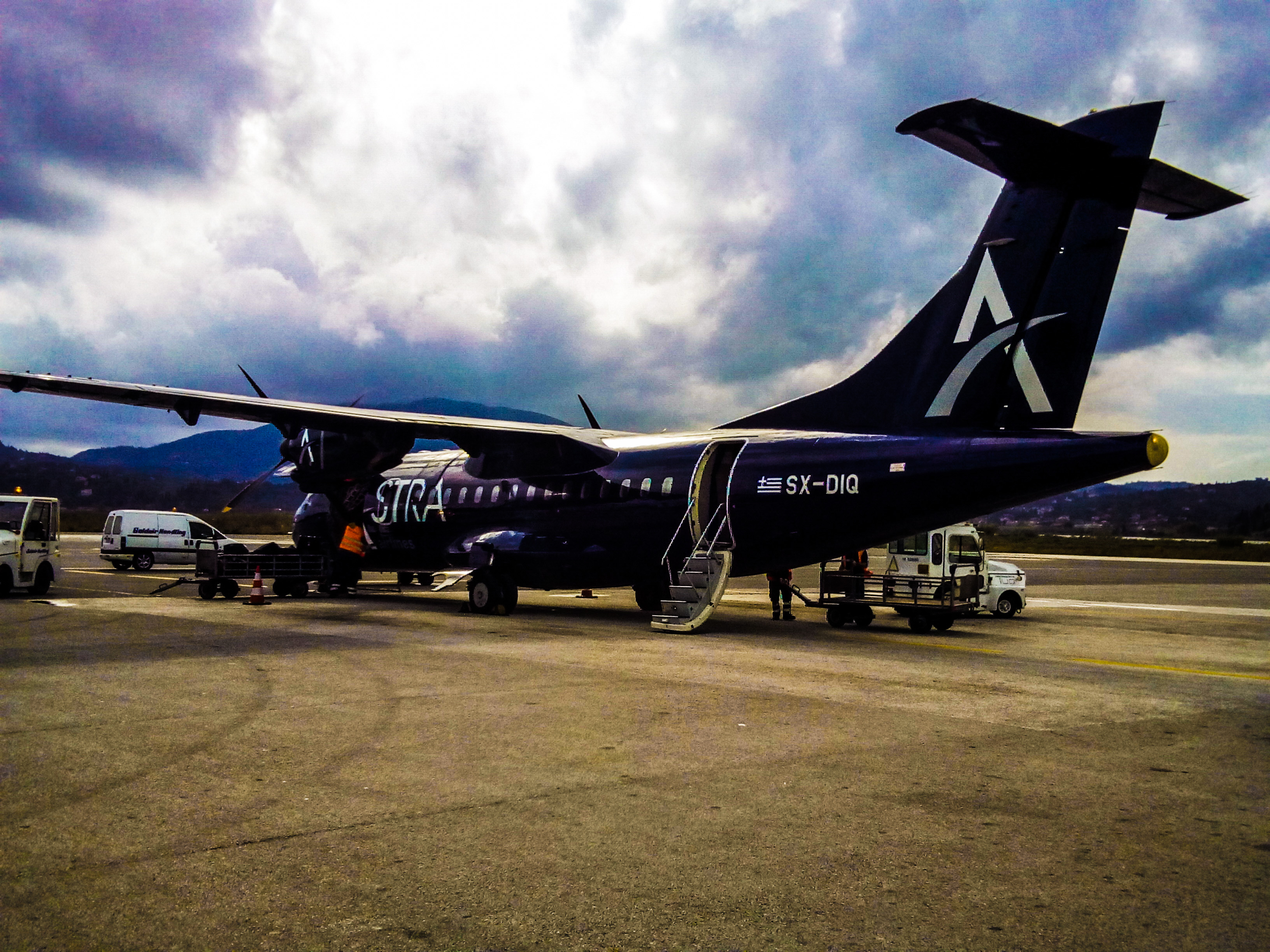 ATR 42-300 [SX-DIQ] of Astra airlines at Corfu International Airport.